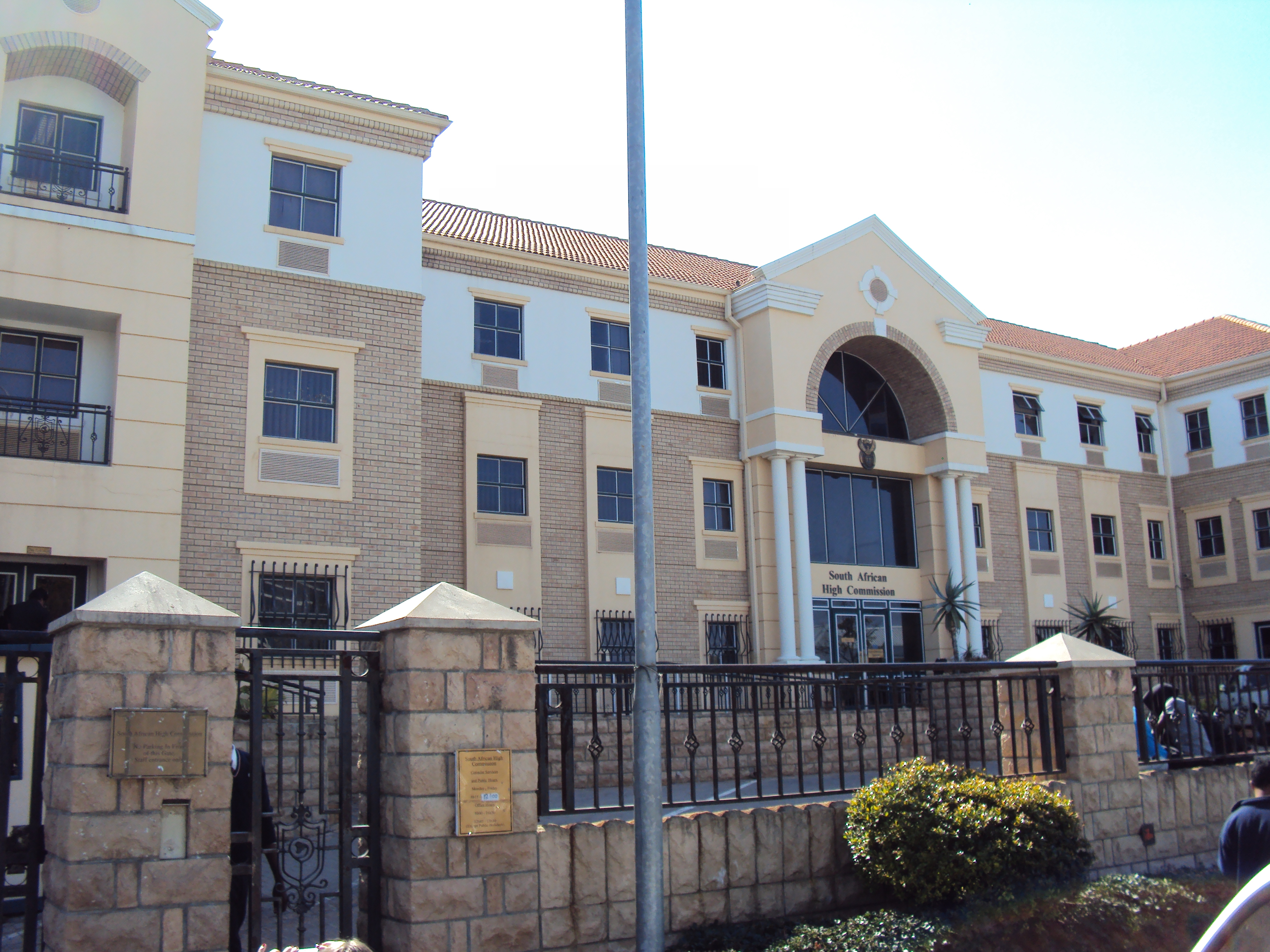 South African High Commission - Gaborone, Botswana